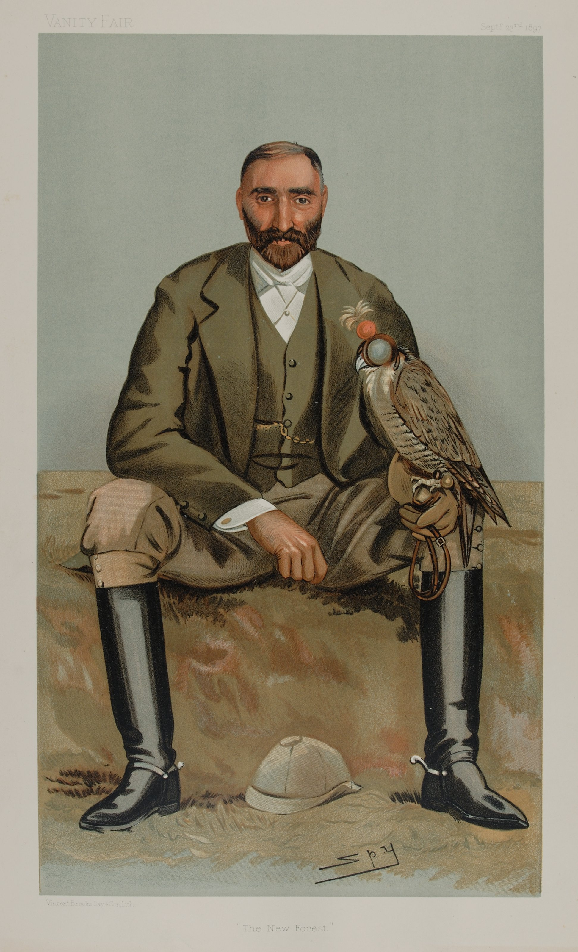 Men of the Day No. 692: Caricature of The Hon. Gerald William Lascelles. (1849-1928). Caption read "The New Forest".